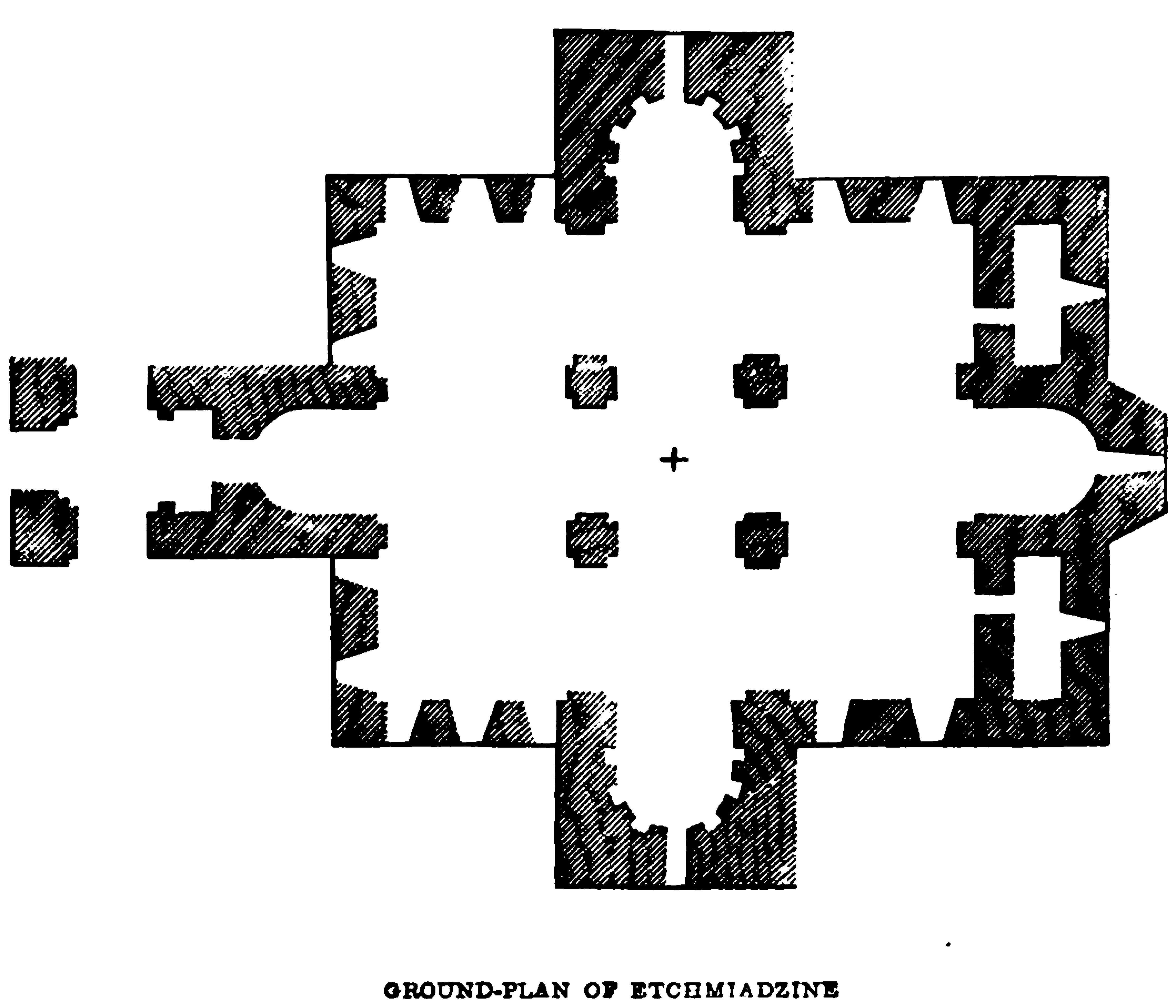 A history of the Holy Eastern Church: General introduction, Volume 1